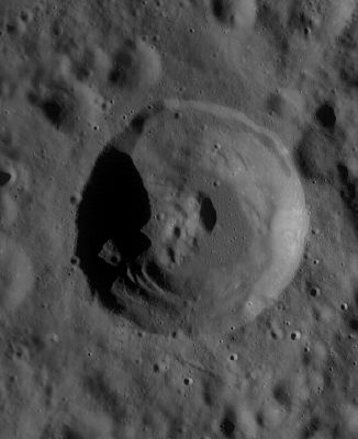 LROC WAC image No. M118791271ME.